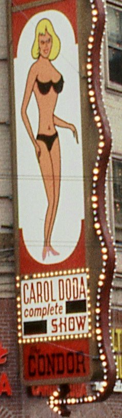 Crop of public-domain image File:Condor Club North Beach1973 crop.jpg showing just the sign featuring Carol Doda